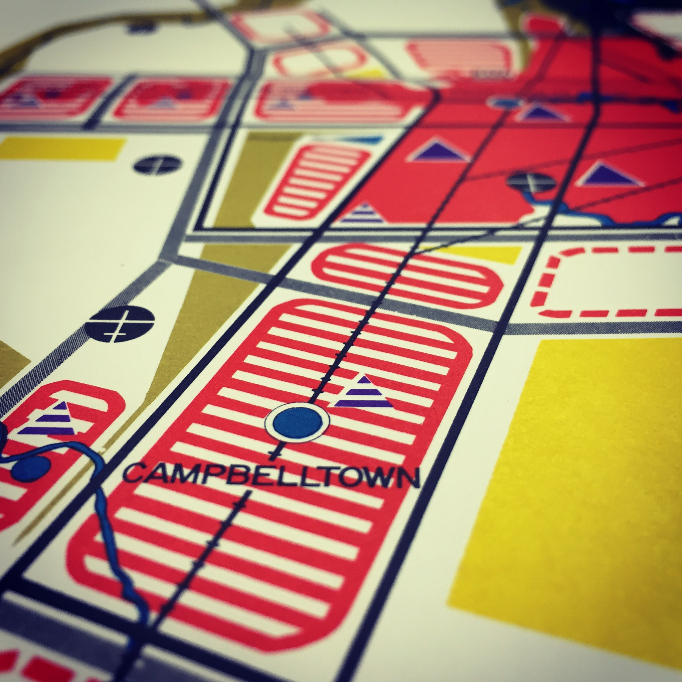 Photograph of Campbelltown as shown on Sydney Region Outline Plan 1968 schematic map, taken at the State Library of NSW, 2015